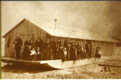 Example of CSHC Houseboats